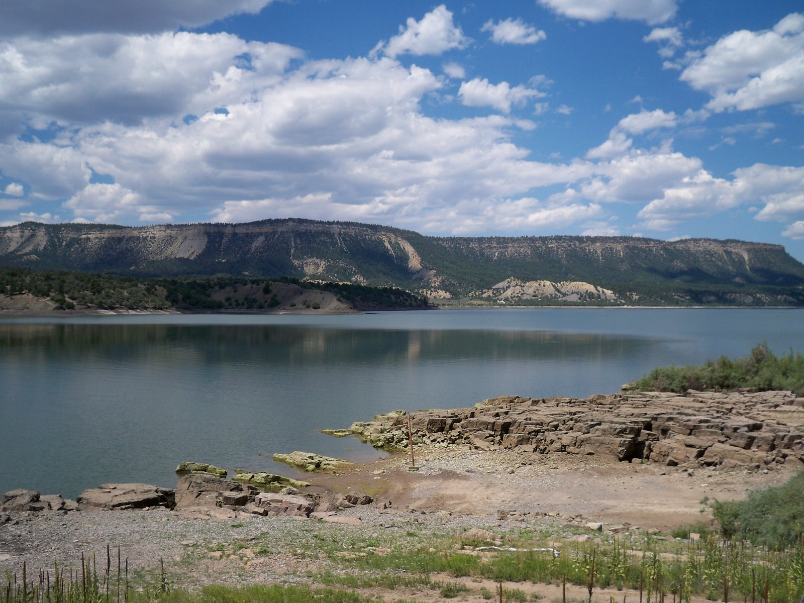 New Mexico